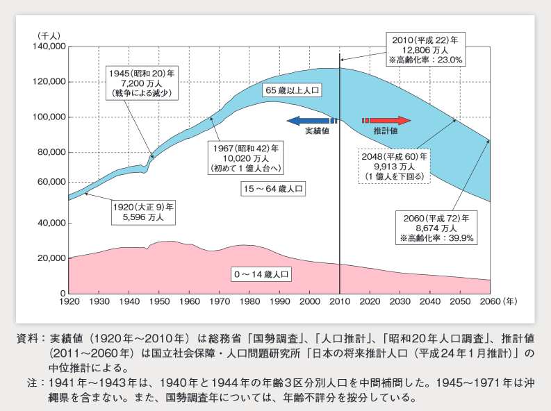 Changes in Japan's population